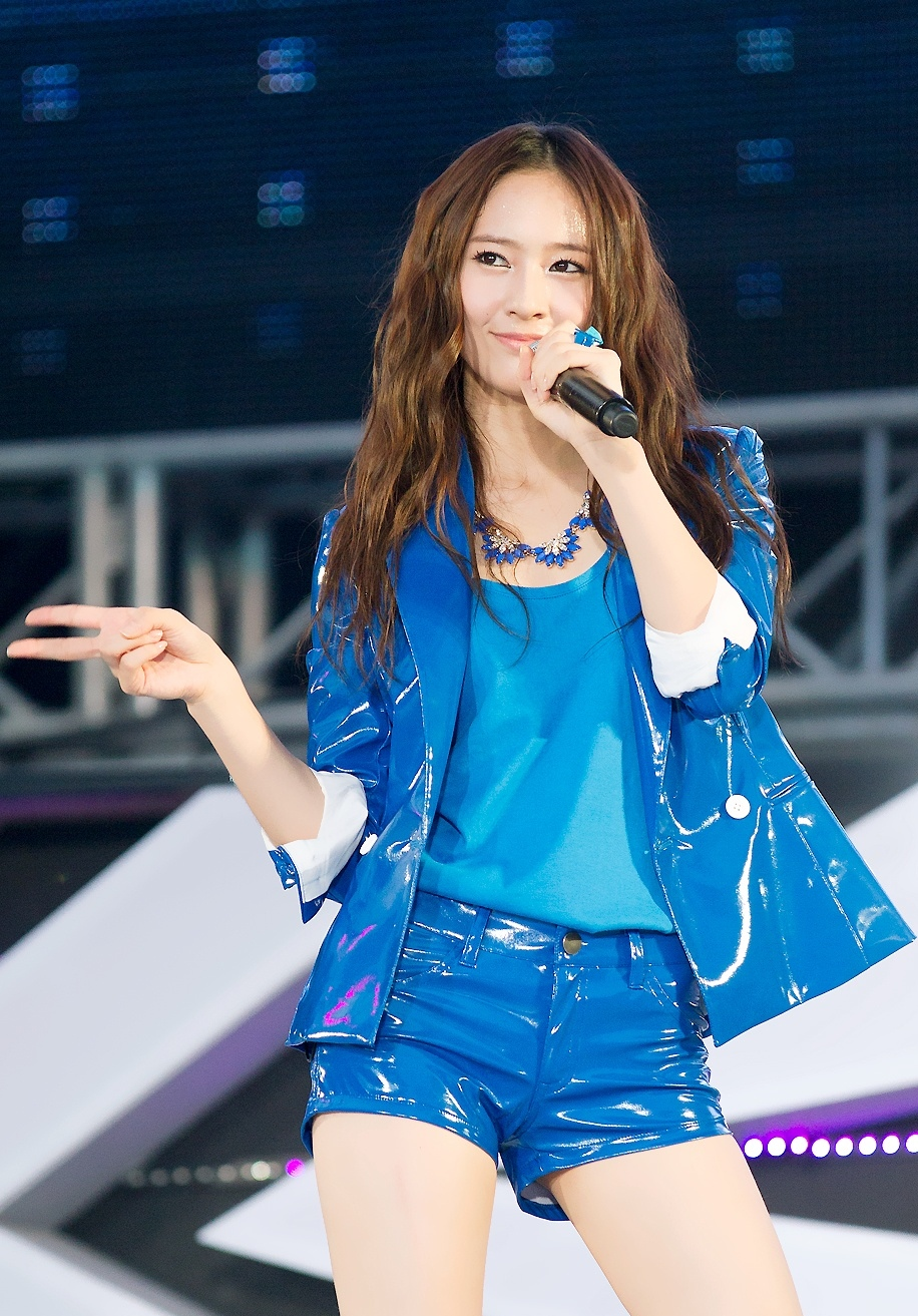 Krystal Jung at the SM Town Live World Tour III in Seoul on August 18, 2012.